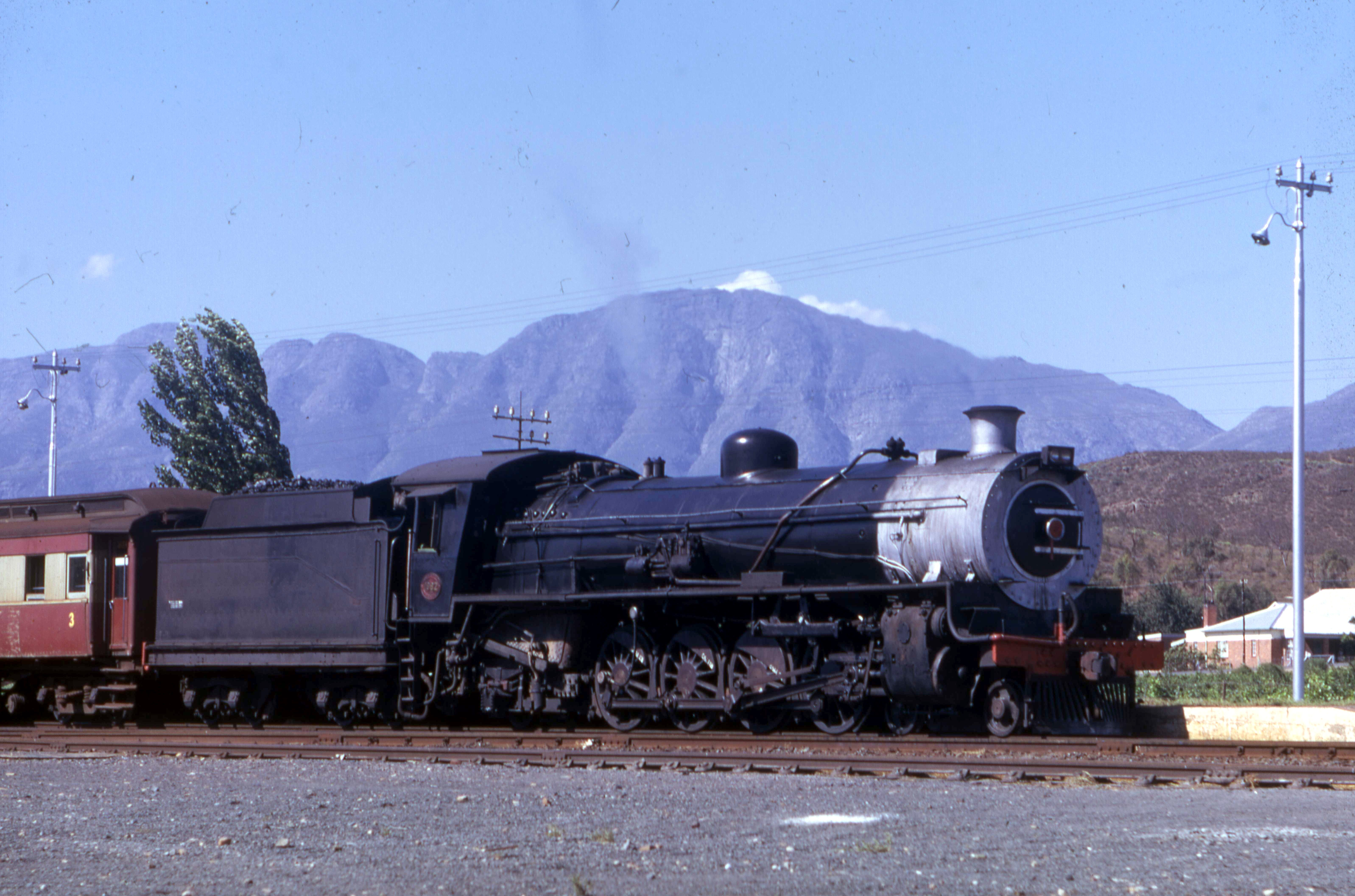 Class 15BR no. 1982 at Bonnievale with the Saturdays-only Worcester-Riversdale passenger